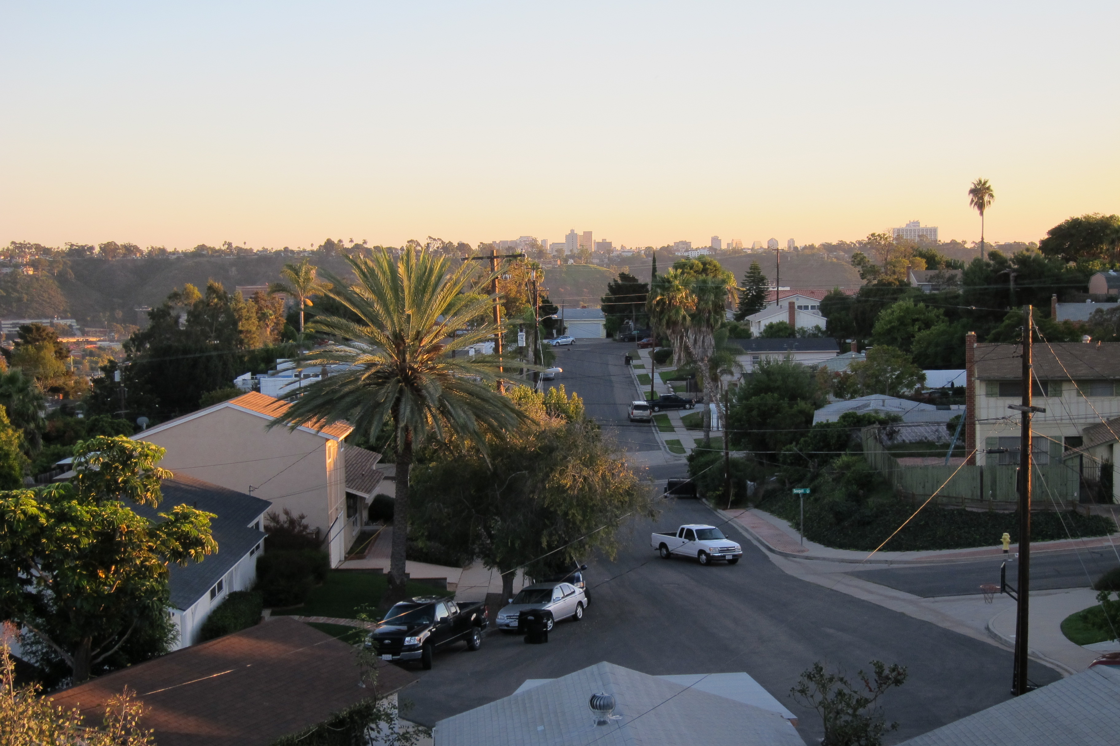 Birdland, San Diego, California neighborhood, as seen from Fletcher Elementery School grounds.